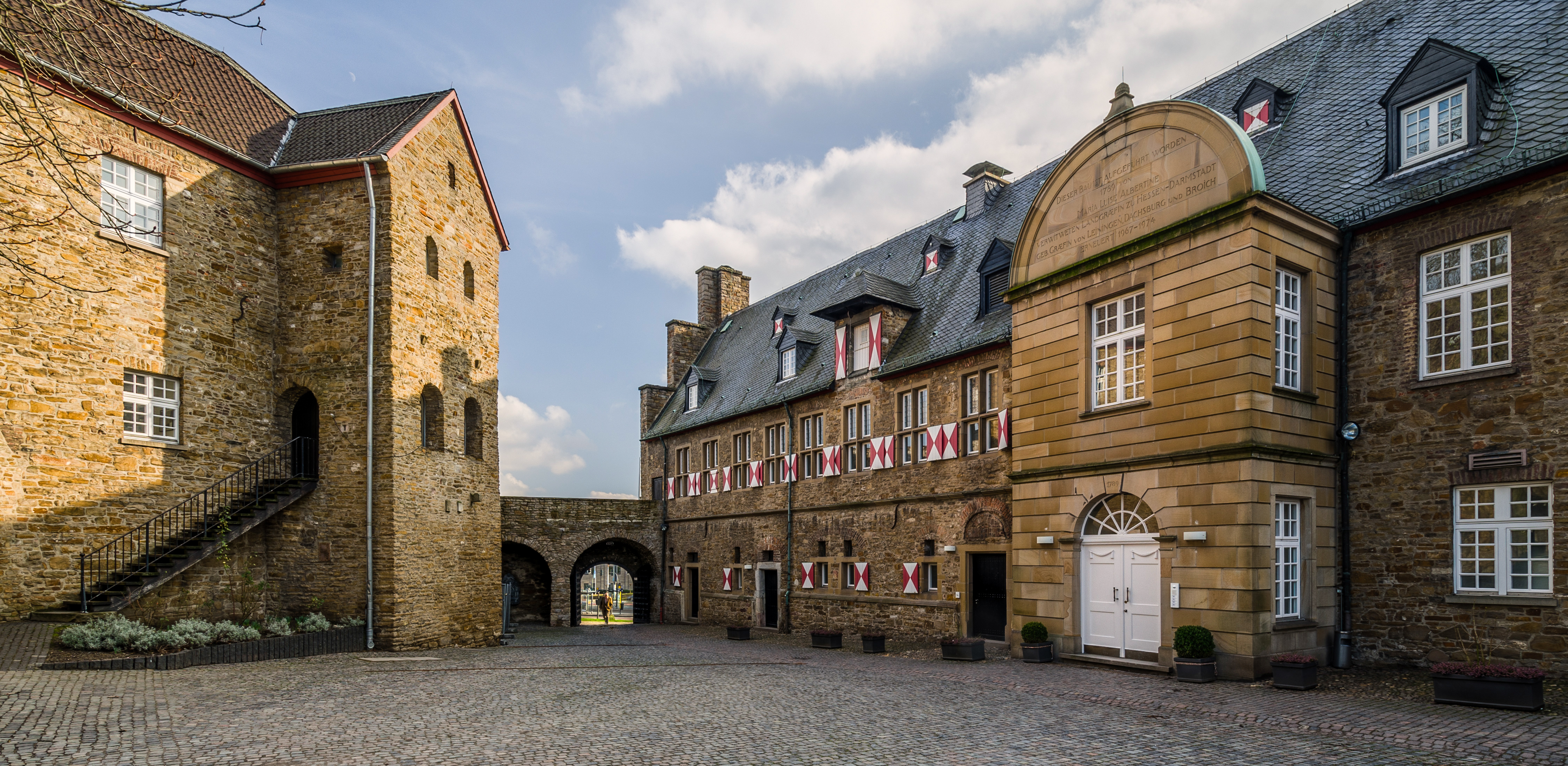 Inner square of the Broich Castle in Mülheim an der Ruhr